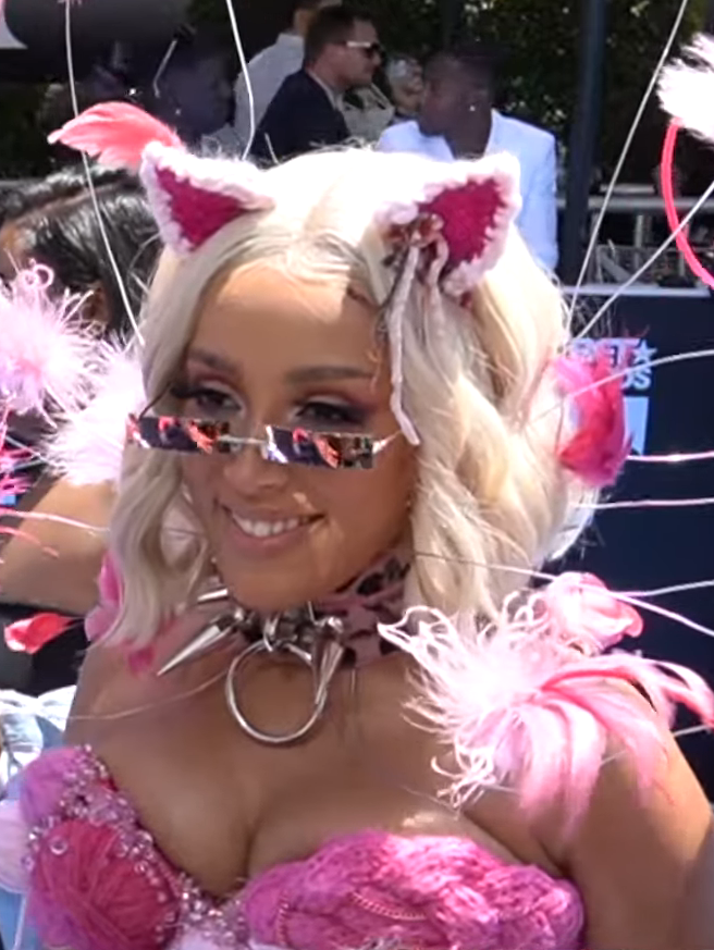 Doja Cat at the 2019 BET Awards in Los Angeles